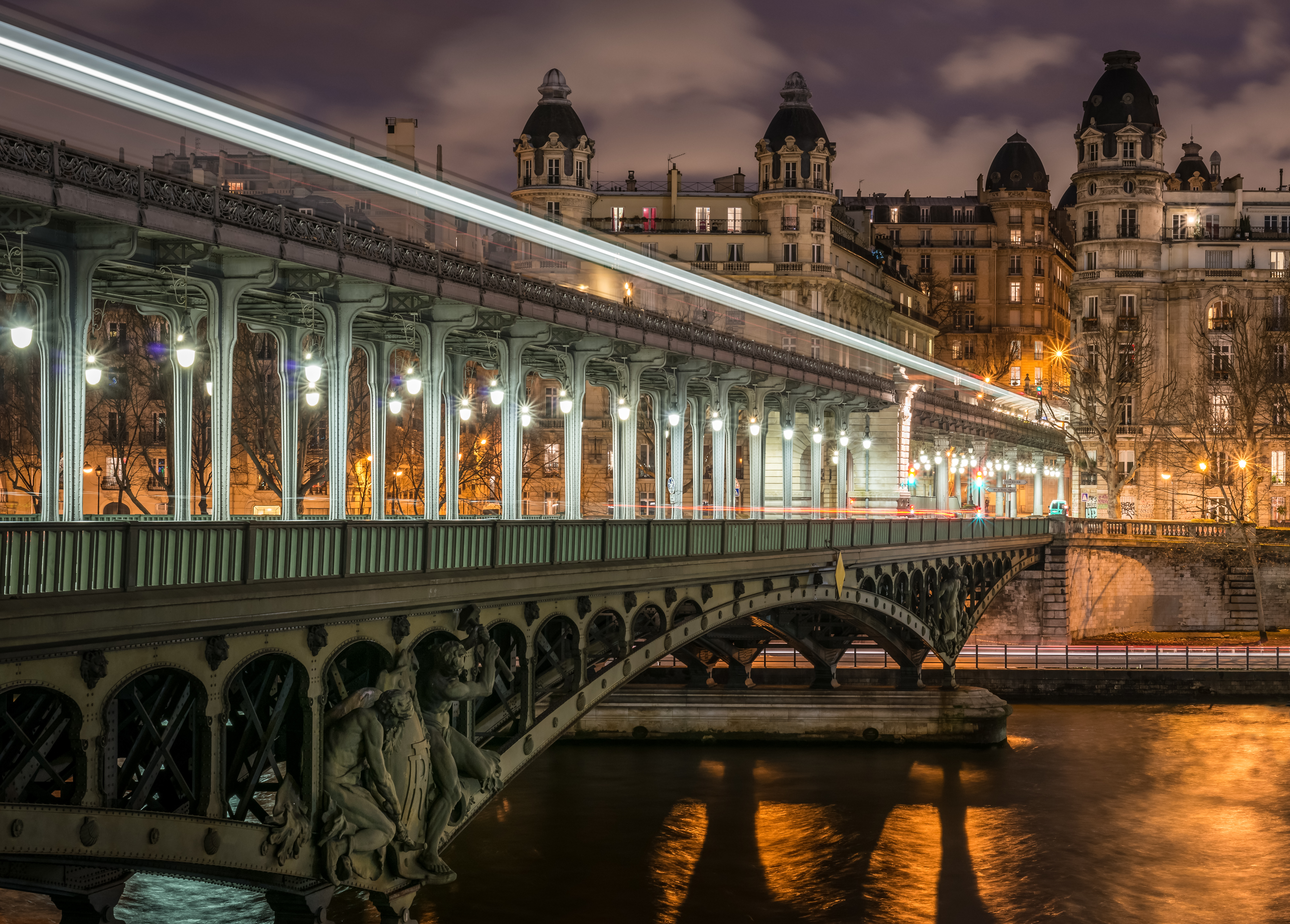 The western part of the Pont de Bir-Hakeim seen at night. Buildings of the 16th arrondissement of Paris are visible in the background. This is a retouched picture, which means that it has been digitally altered from its original version. Modifications: Minor cloning at right side where parts of a blurry boat were removed. Furthermore slight selective brightening to compensate for large differences in brightness.